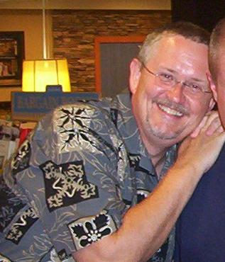 Picture that I took while attending an Orson Scott Card book signing ru:Изображение:Orson.scott.card.JPG Orson Scott Card